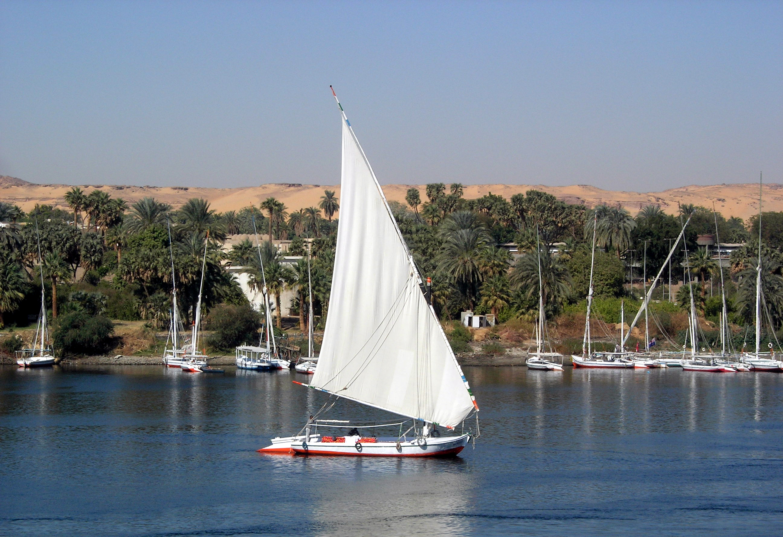 Description =Felouque sur le Nil Source =Photo taken by Remi Jouan Date =Decembre 2006 Author =Remi Jouan